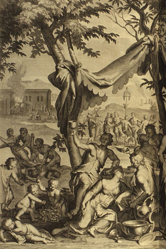 The Earth was corrupt before God and filled with violence, as in Genesis 6:5: "And God saw that the wickedness of man was great in the earth, and that every imagination of the thoughts of his heart was only evil continually."; illustration from the 1728 Figures de la Bible; illustrated by Gerard Hoet (1648–1733) and others, and published by P. de Hondt in The Hague; image courtesy Bizzell Bible Collection, University of Oklahoma Libraries